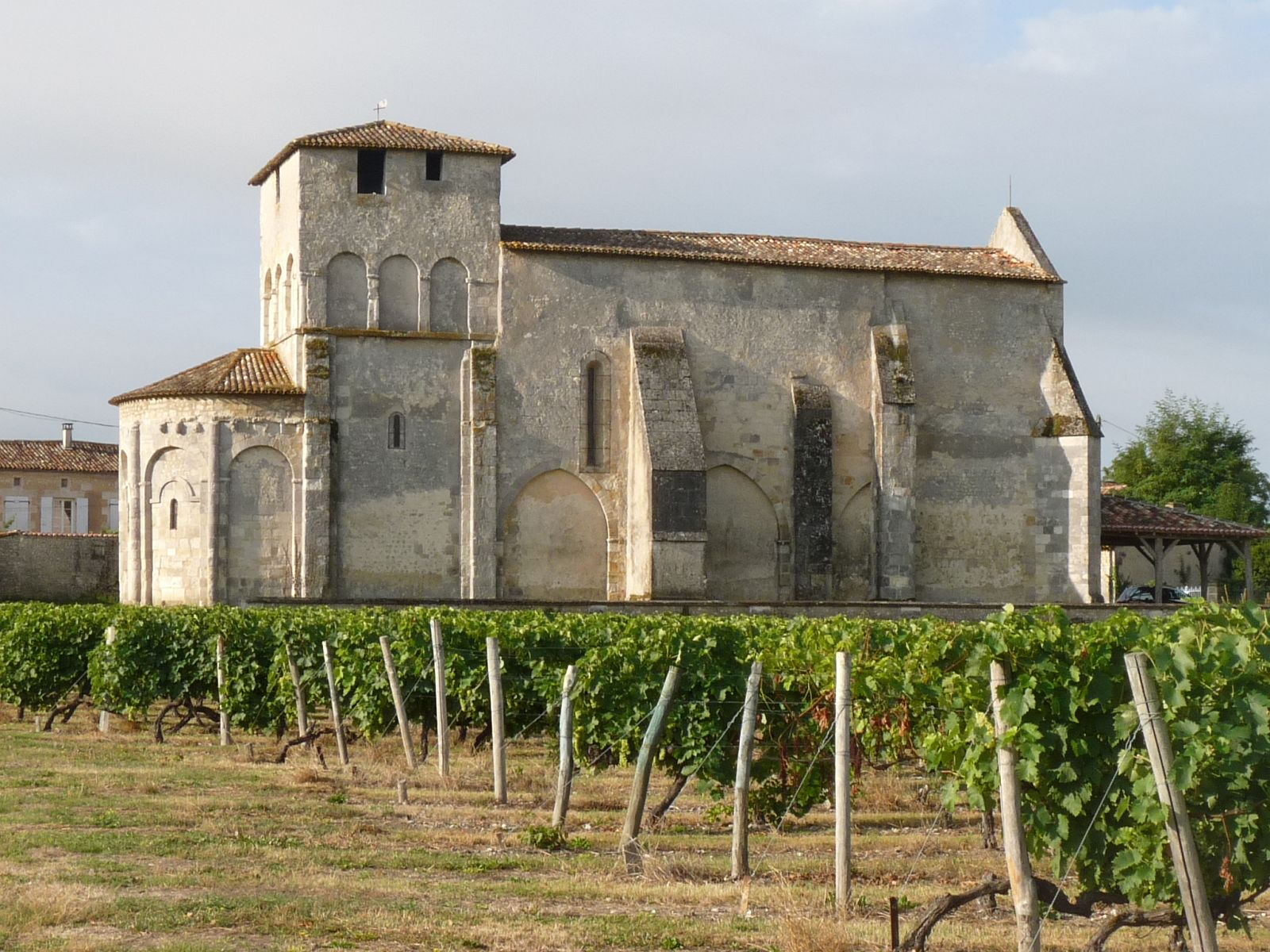 church of Challignac, Charente, France